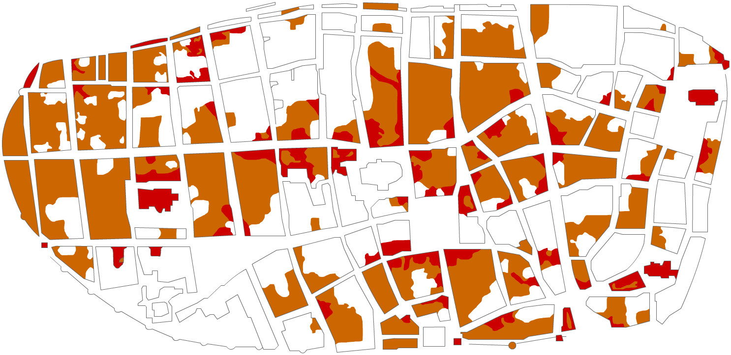 The Map of historical Rostock City shows the damage from the allied bombardement in 1942.